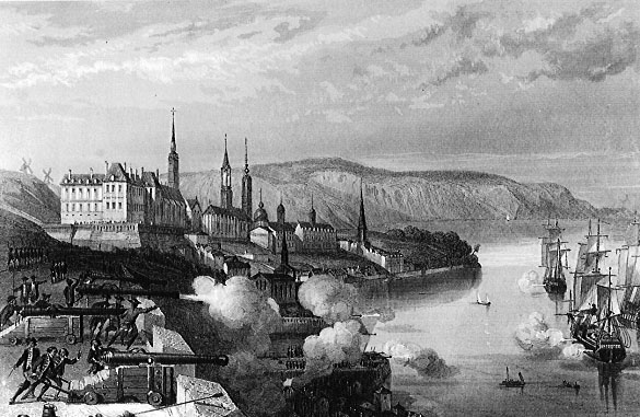 Image from Canadawiki. National Archives of Canada (C6022).